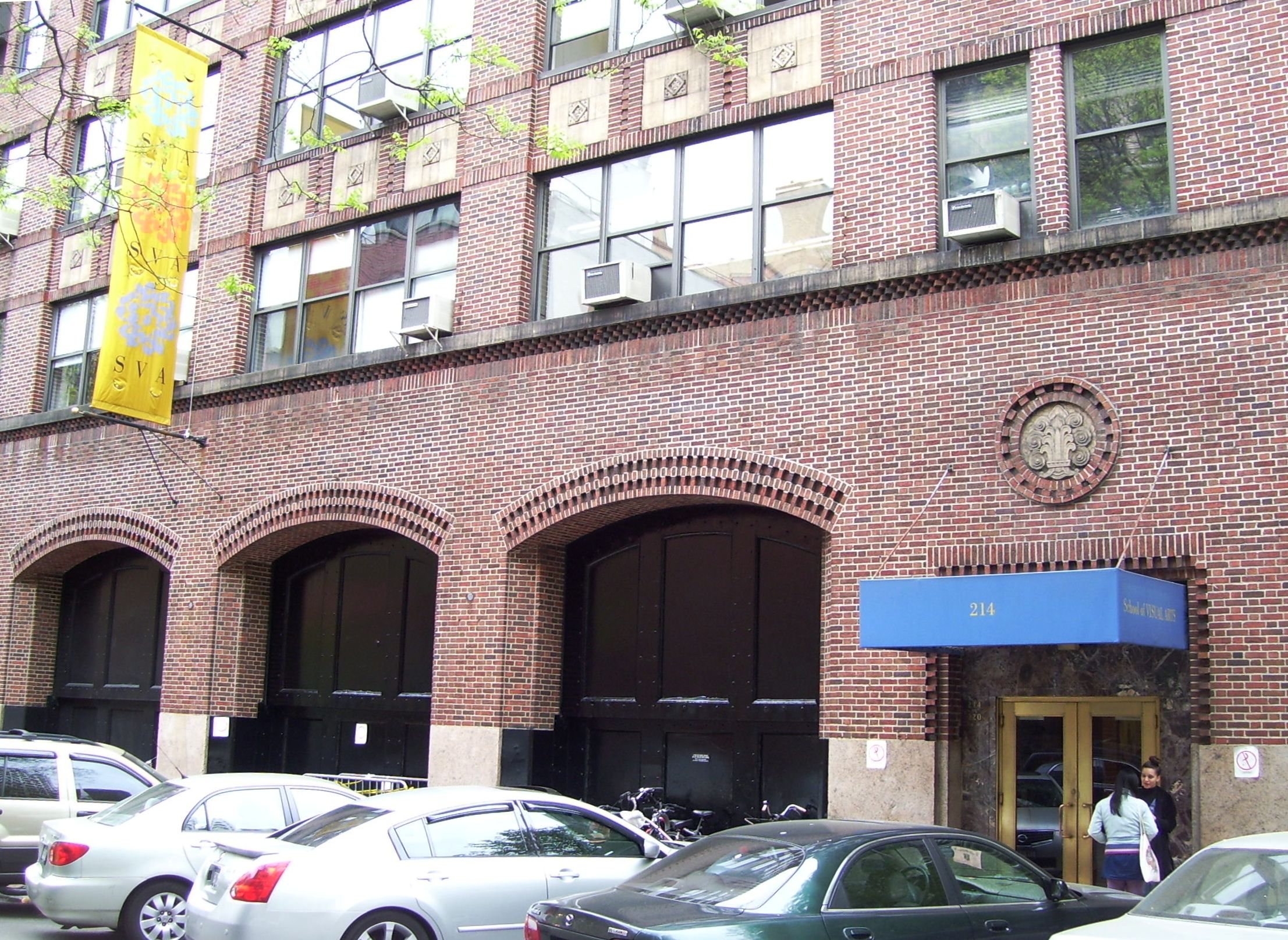 A building of the School of Visual Arts at 214 East 21st Street in Manhattan, New York City.